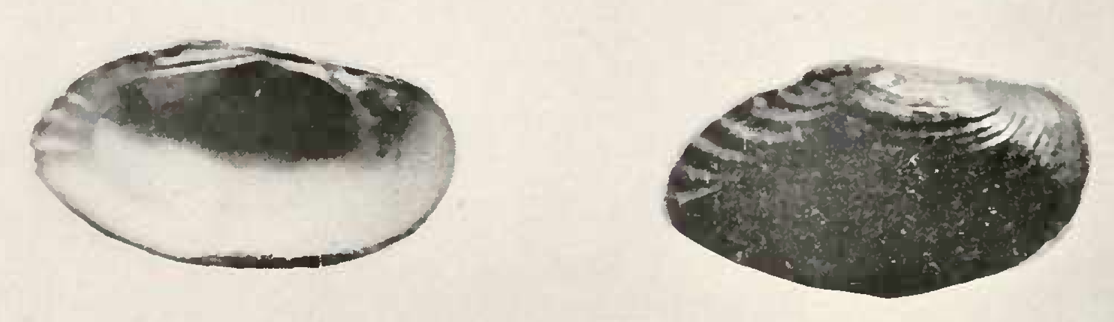 Medionidus simpsonianus from orinal sdescription by Walker, 1905